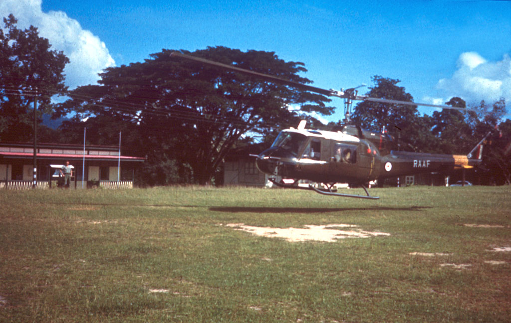 A Royal Australian Air Force UH-1 helicopter. This photo was most likely taken in Malacca at Terendak.